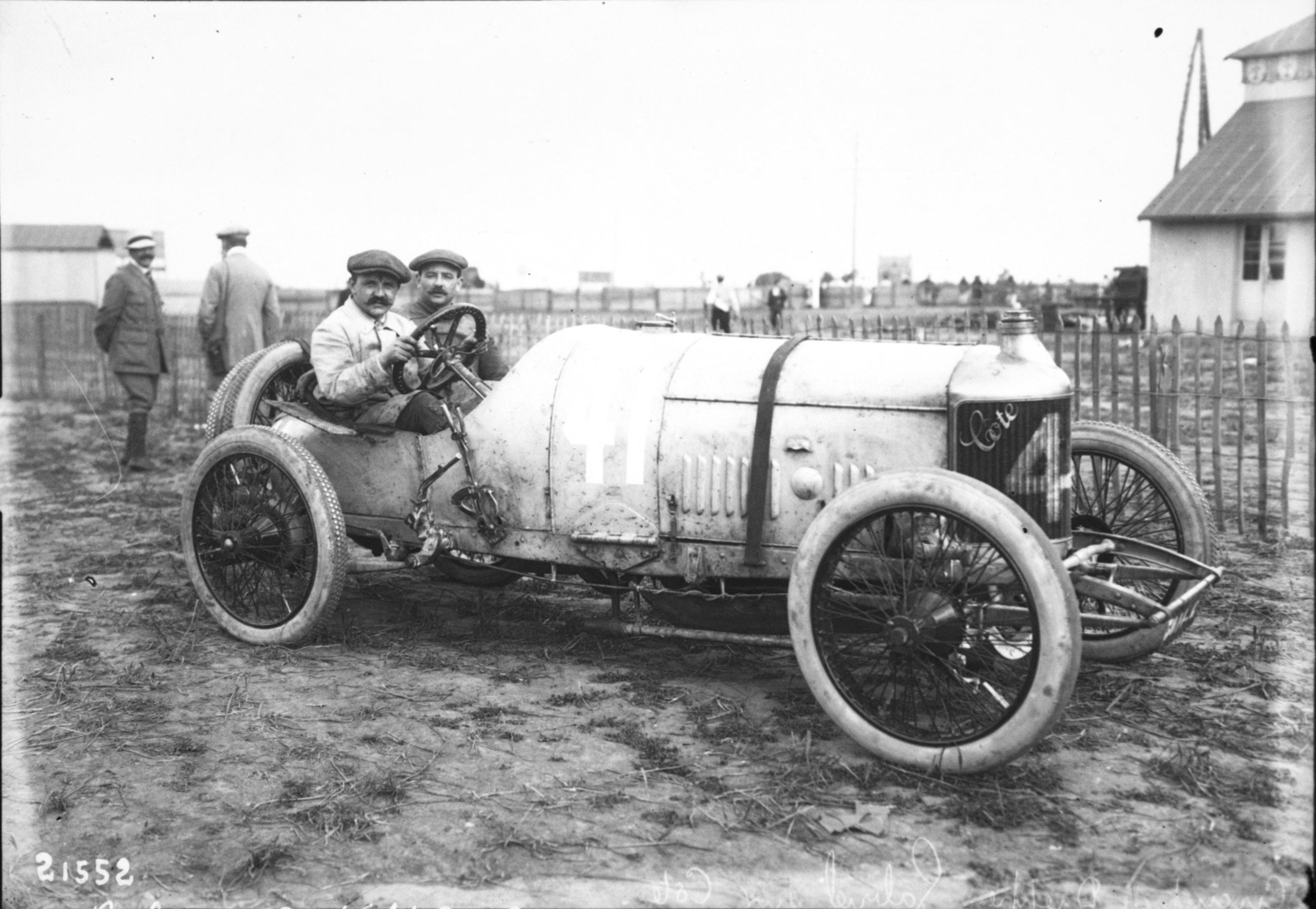 Fernand Gabriel in his Côte at the 1912 French Grand Prix at Dieppe.